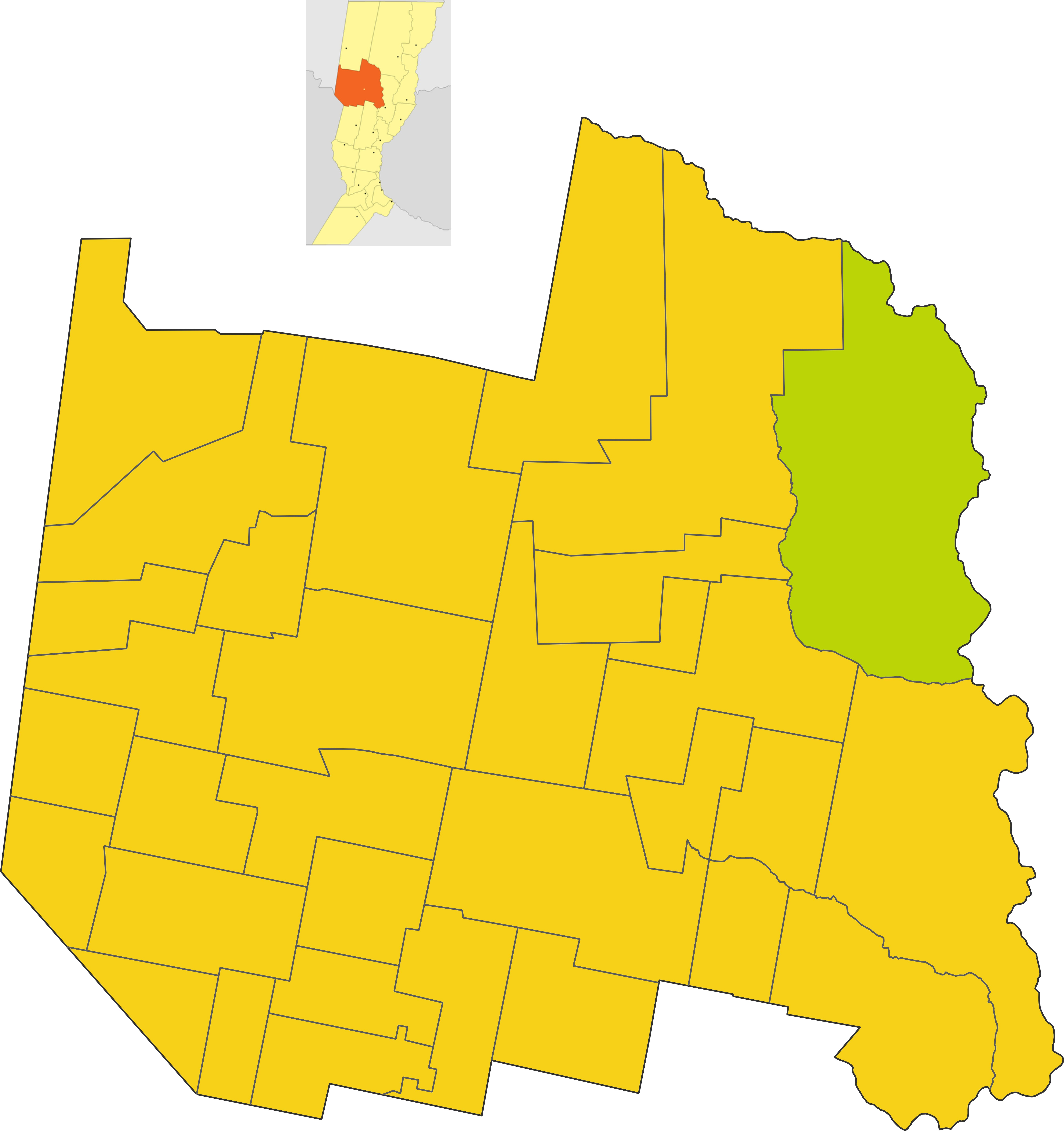 Map of the comuna de Aguara Grande in San Cristobal department, Santa fe province, Argentina